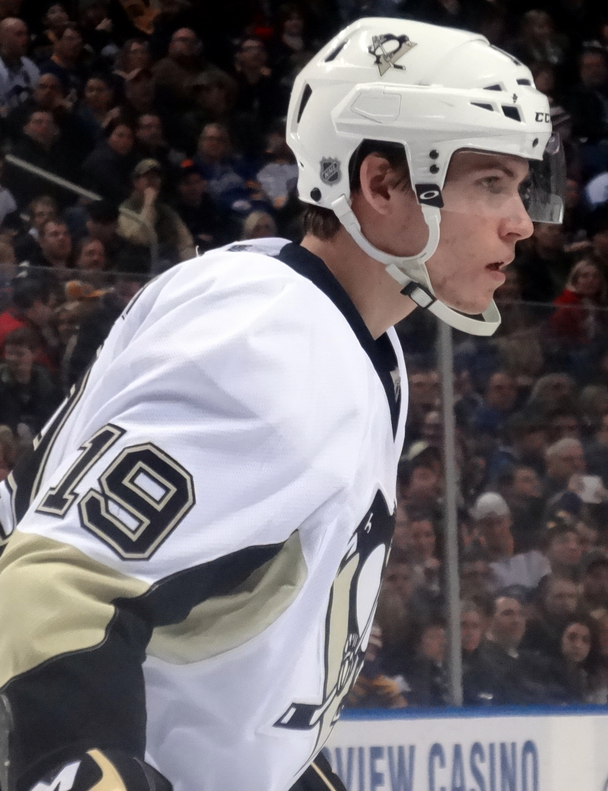 Pittsburgh Penguins forward Beau Bennett in his second NHL game, February 17, 2013 against the Buffalo Sabres at First Niagara Center in Buffalo, PA.